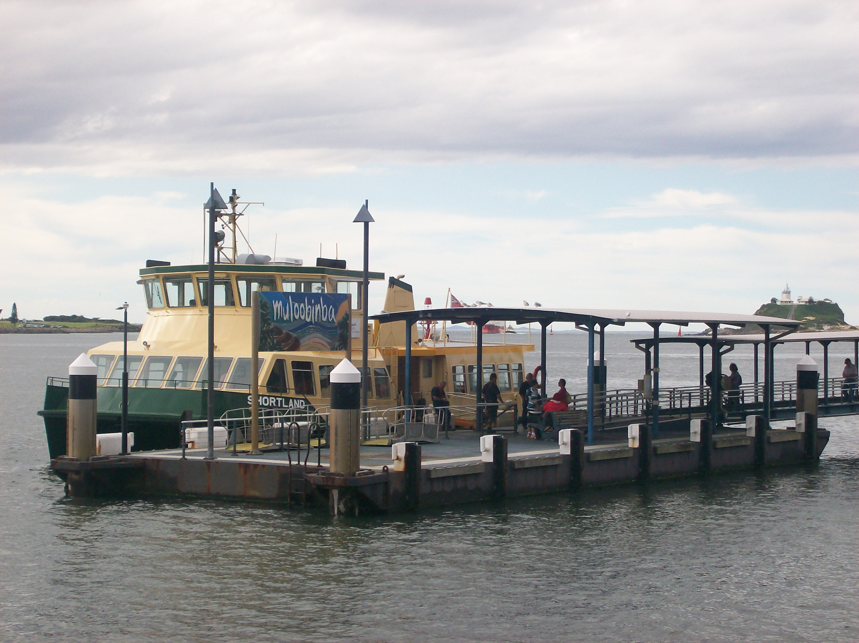 Newcastle ferry wharf with docked ferry